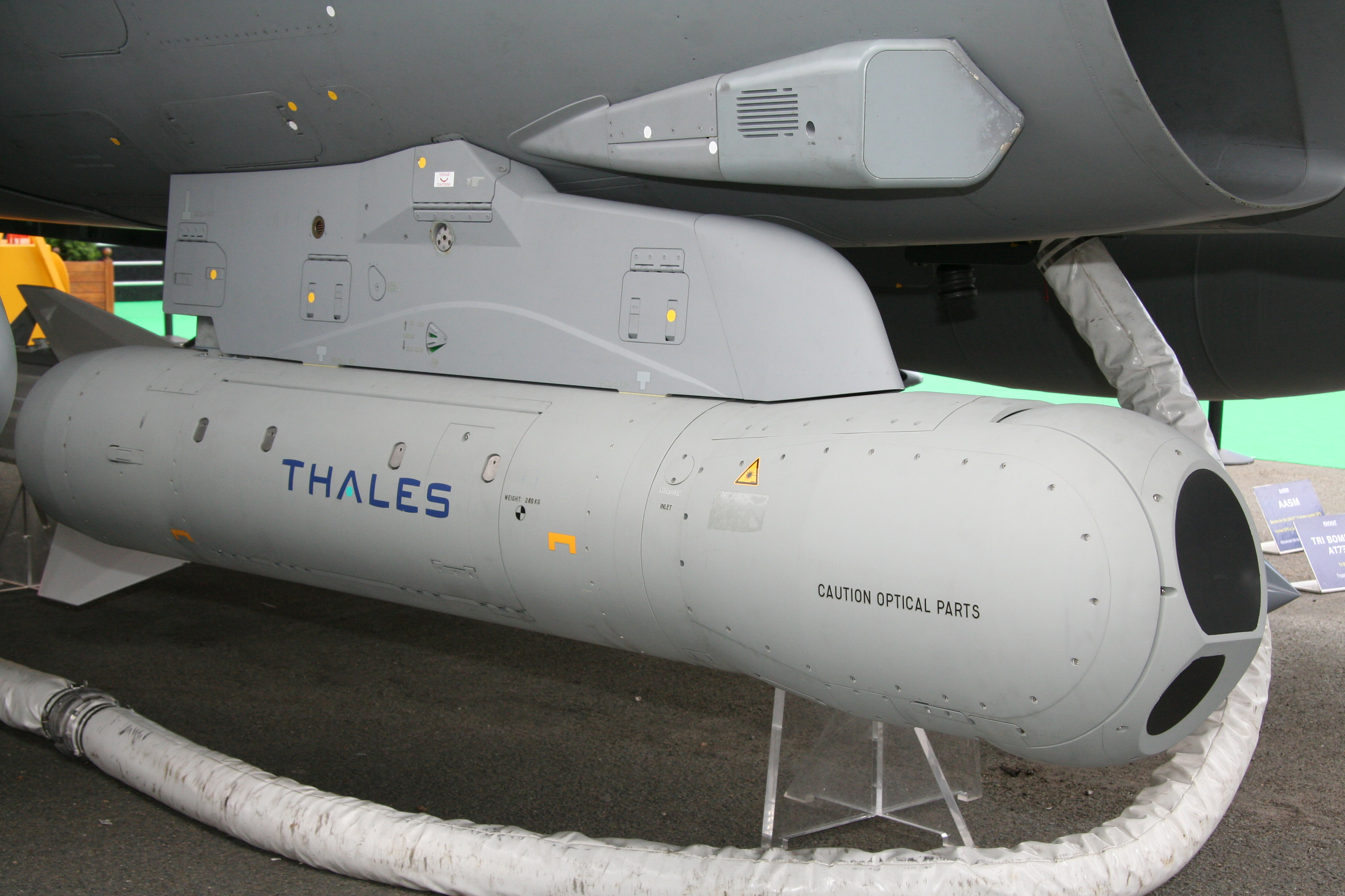 Dassault Rafale with as armament : GBU-12 Paveway II, TDA Armements LR 68 A, Rafaut AT730, Thales Pod Damoclès - Paris Air Show 2009